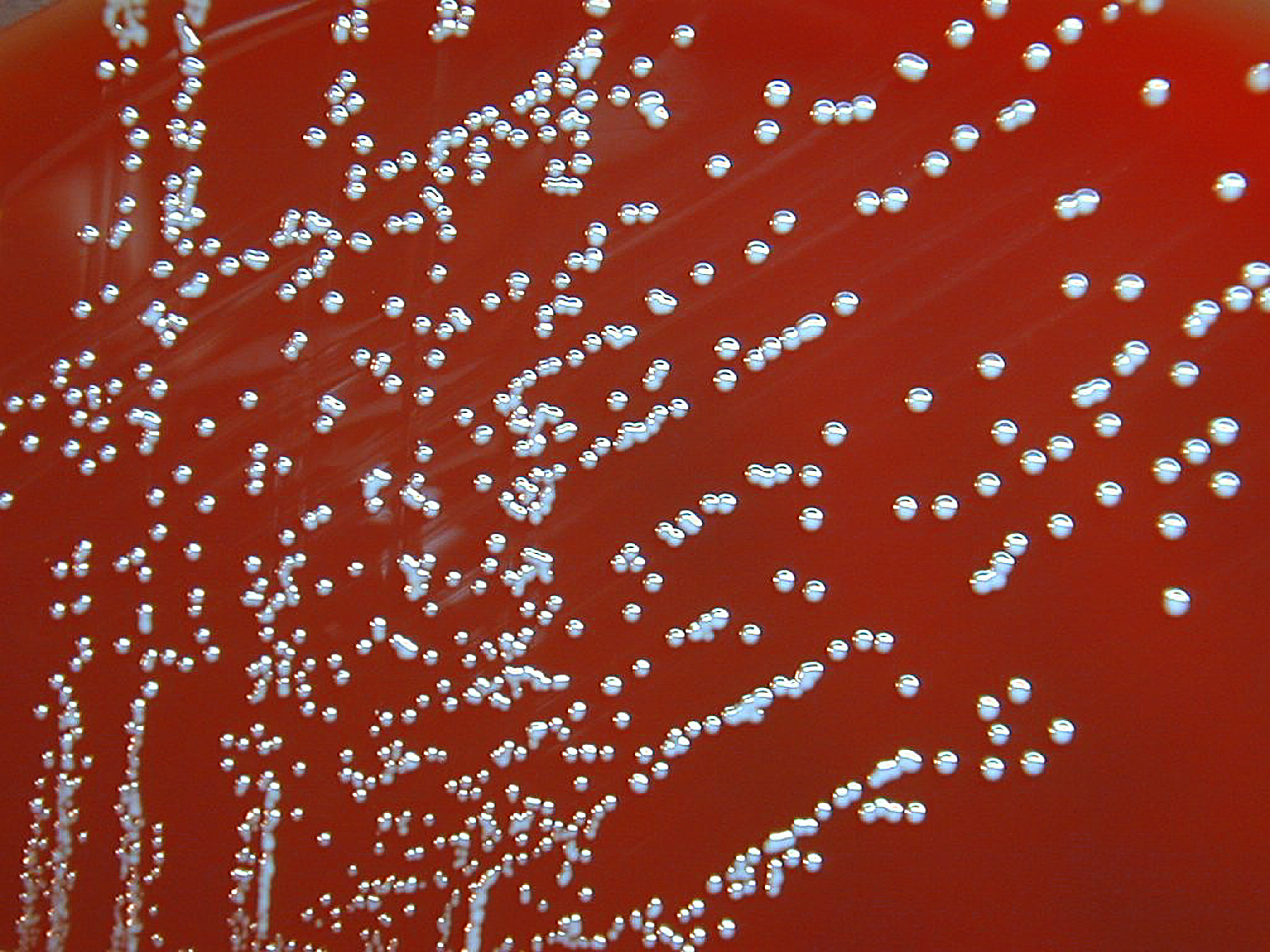 ID#: 1902 Brucella melitensis colonies. Brucella spp. Colony Characteristics: A. Fastidious, usually not visible at 24h. B. Grows slowly on most standard laboratory media (e.g. sheep blood, chocolate and trypticase soy agars). Pinpoint, smooth, entire translucent, non-hemolytic at 48h. Content Providers(s): CDC/ Courtesy of Larry Stauffer, Oregon State Public Health Laboratory Creation Date: 2002 Copyright Restrictions: None - This image is in the public domain and thus free of any copyright restrictions. As a matter of courtesy we request that the content provider be credited and notified in any public or private usage of this image